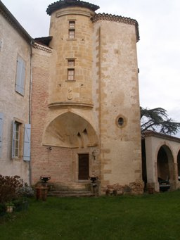 Photo of the entrance to the Latoue's castle (France, Haute-Garonne)